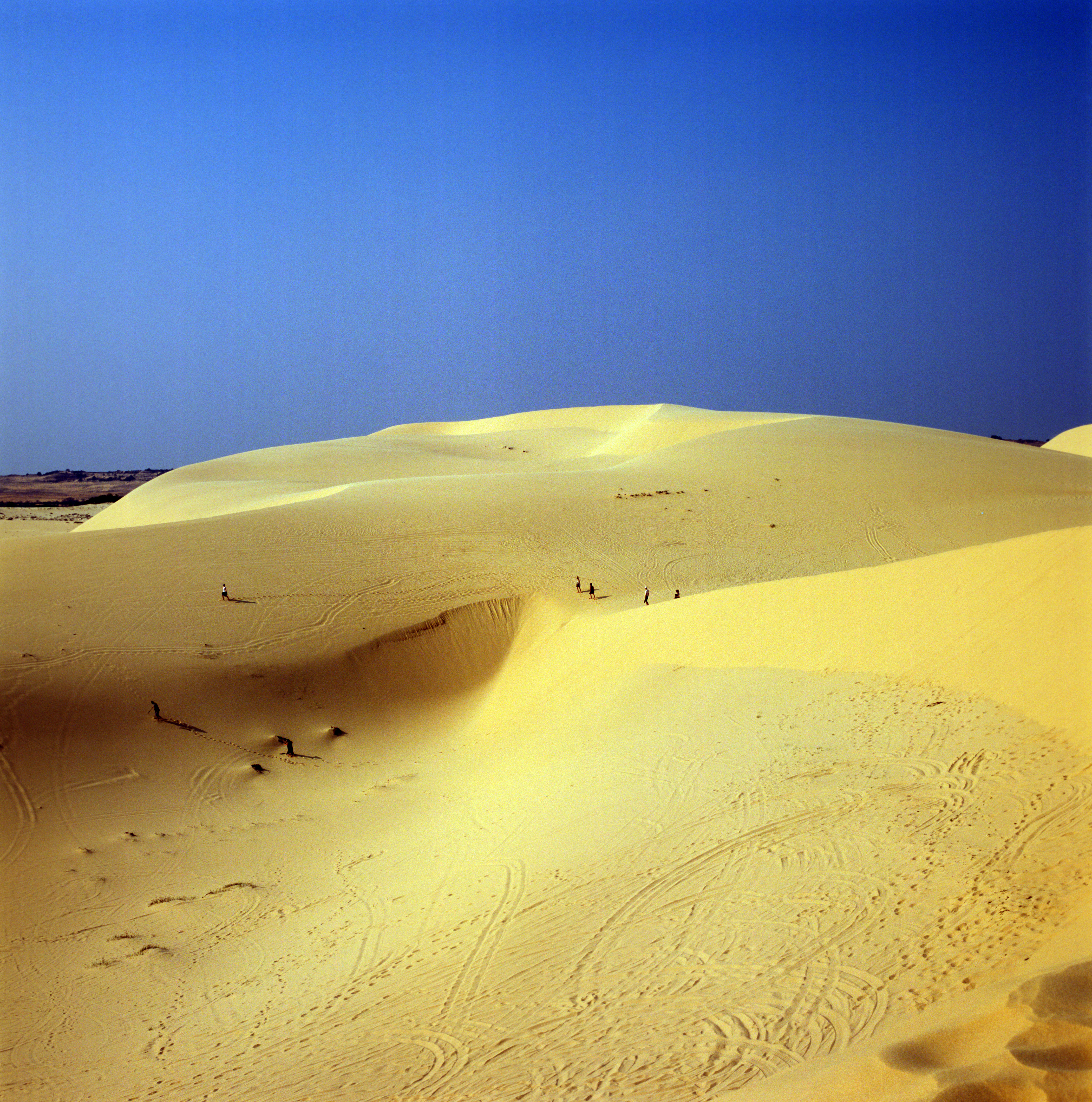 Famous white dunes of Mui Ne, Vietnam